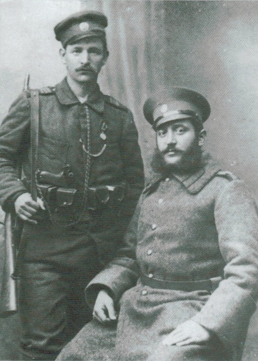 Panayot Karamfilovich in WWI